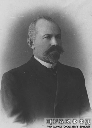 Ivan Shcheglovitov, Russian minister of justice (1906-1915)